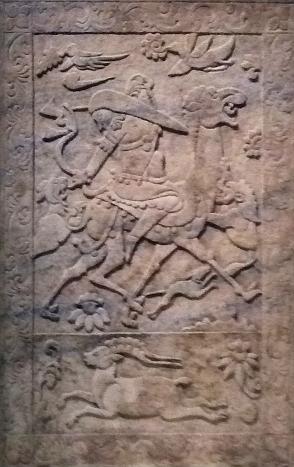 Shanxi Museum - tomb of Yu Hong 2 Panel 4